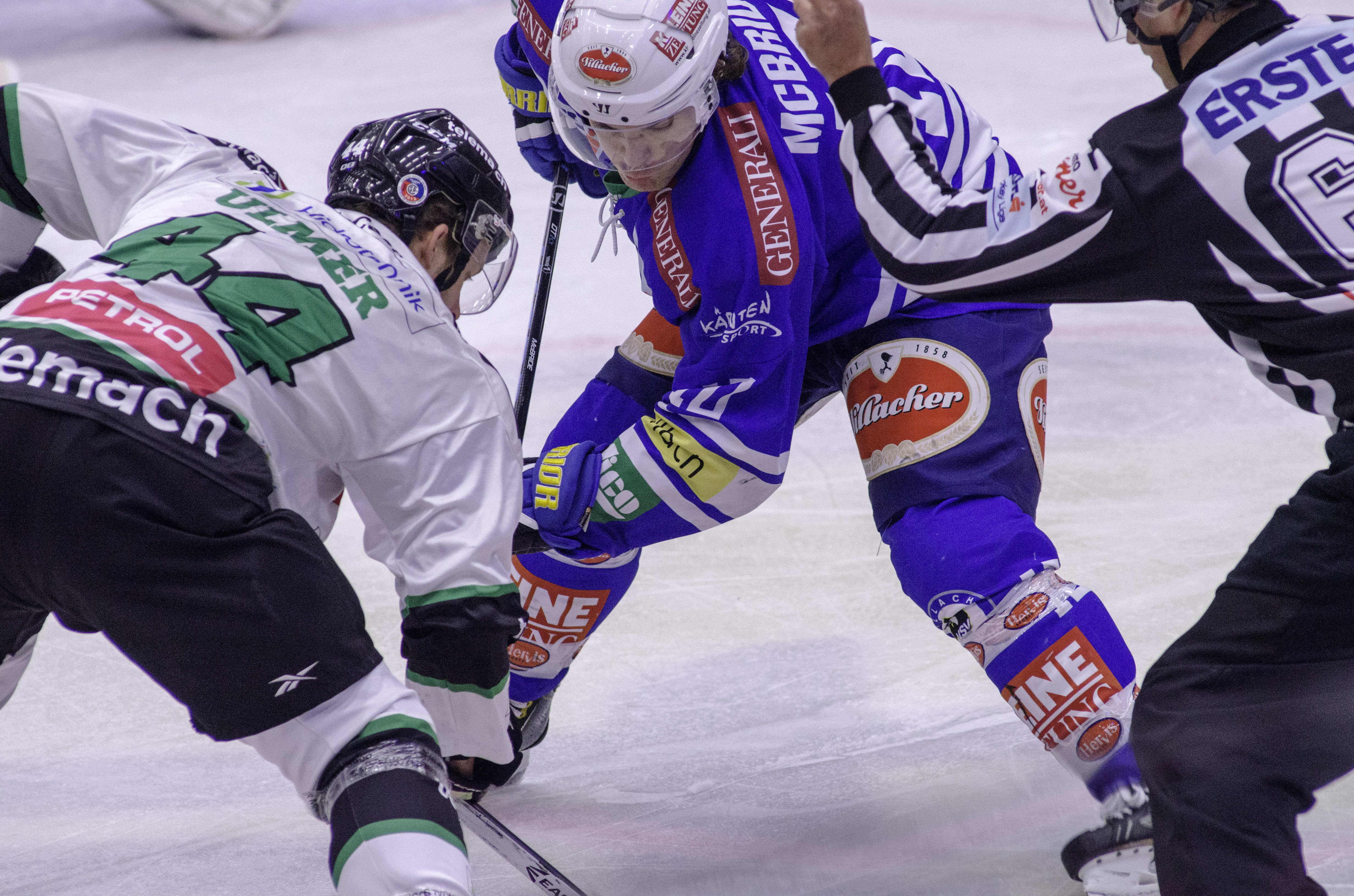 Jeff Ulmer and Brock McBride face off